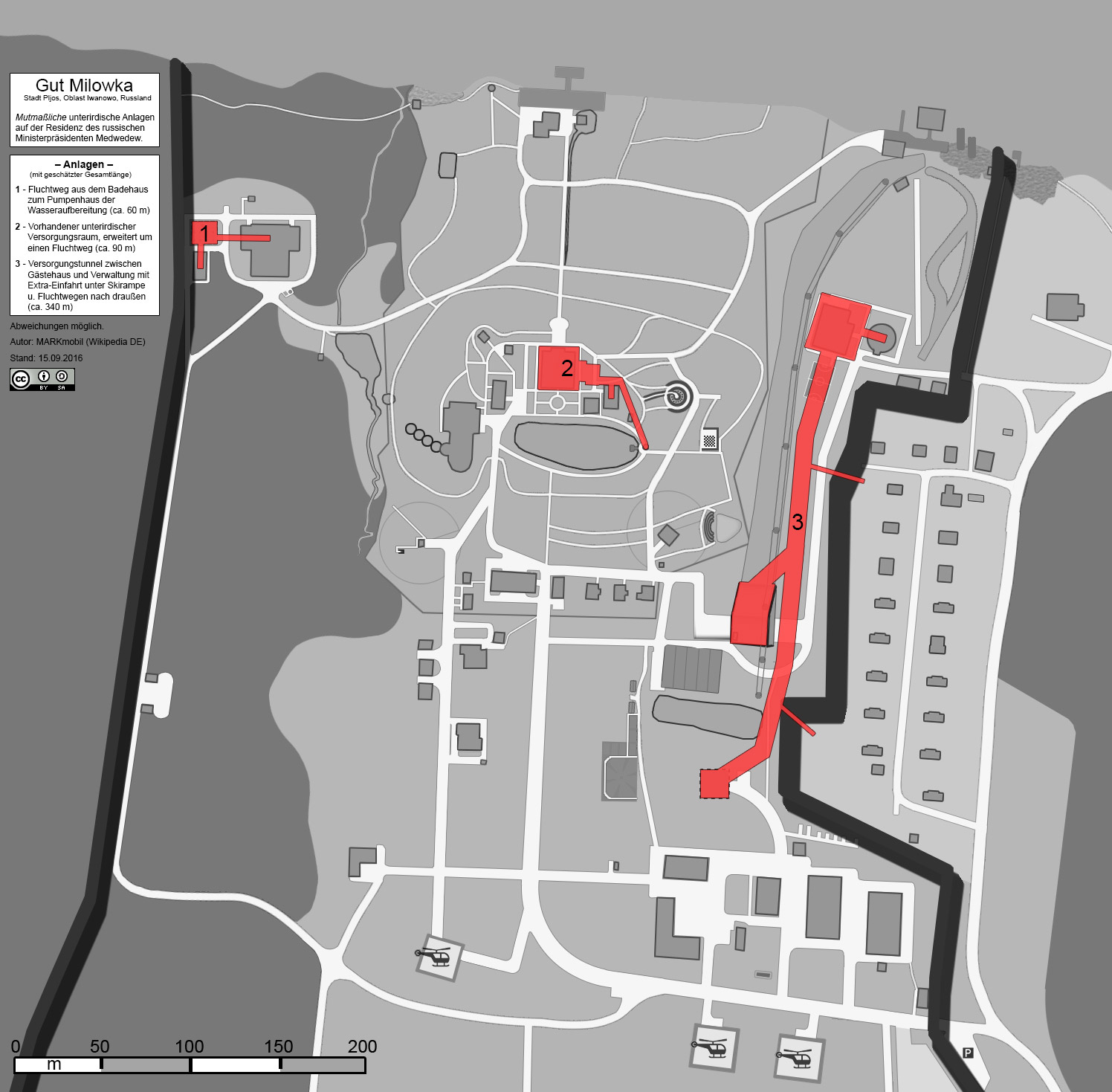 Estimated subterranean structures on the residence of the russian Prime Minister Medvedev in Milowka (Plyos).